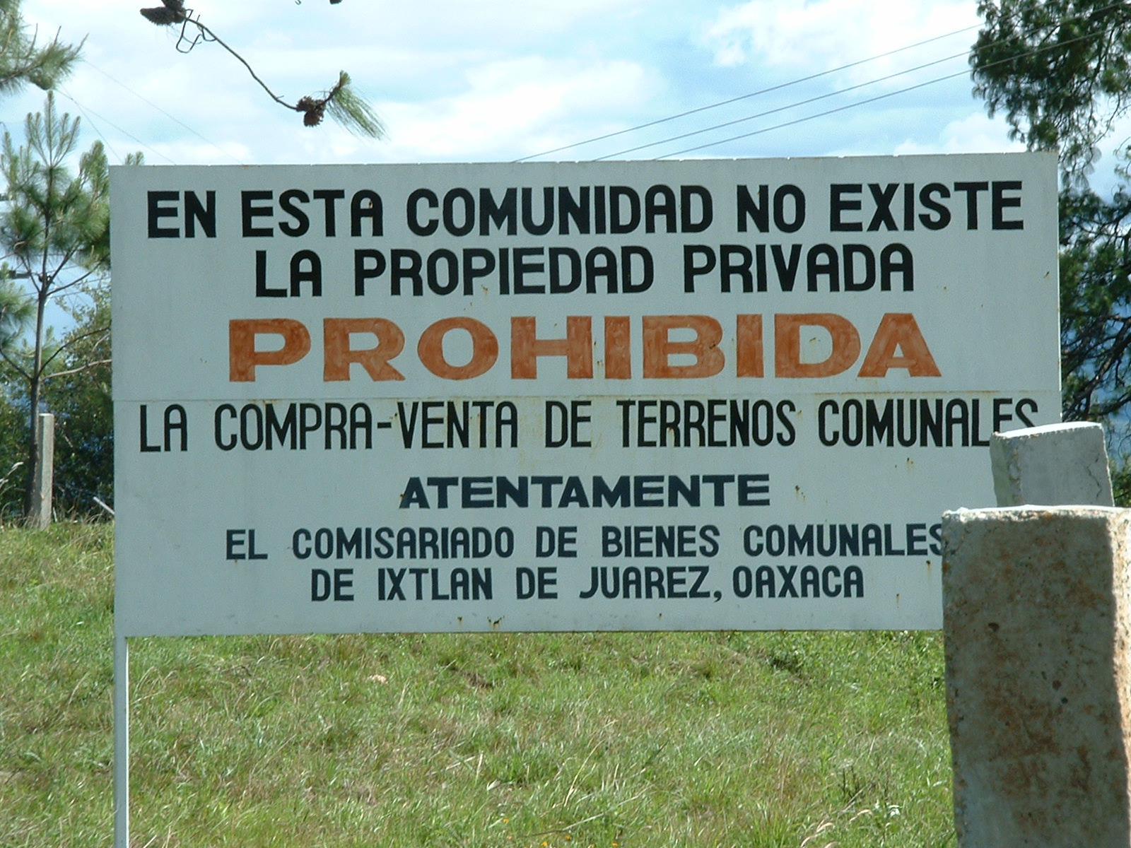 Notice on the outskirts of the town of Ixtlán de Juárez, Oaxaca, Mexico. The text reads, "In this community private property does not exist. Sale and purchase of land prohibited. Issued by the Commission of Public Goods of Ixtlán de Juárez, Oaxaca"